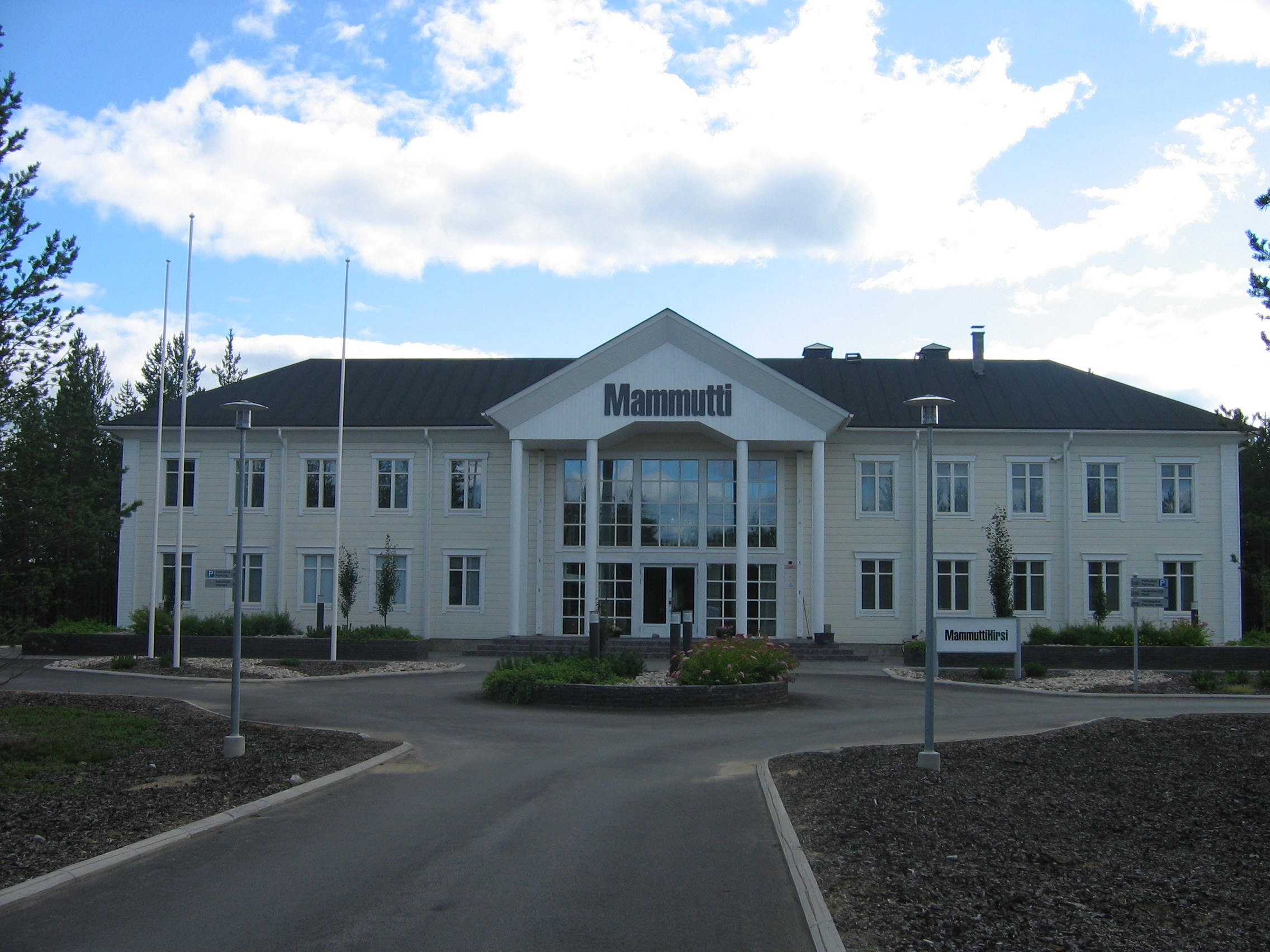 The headquarters of Pohjois-Suomen Hirsitalokeskus Oy (Mammuttihirsi) in Ylikiiminki, Finland